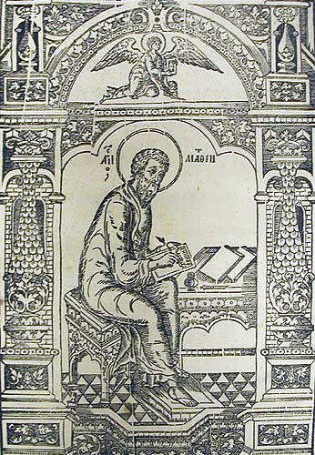 Theophylact of Ohrid